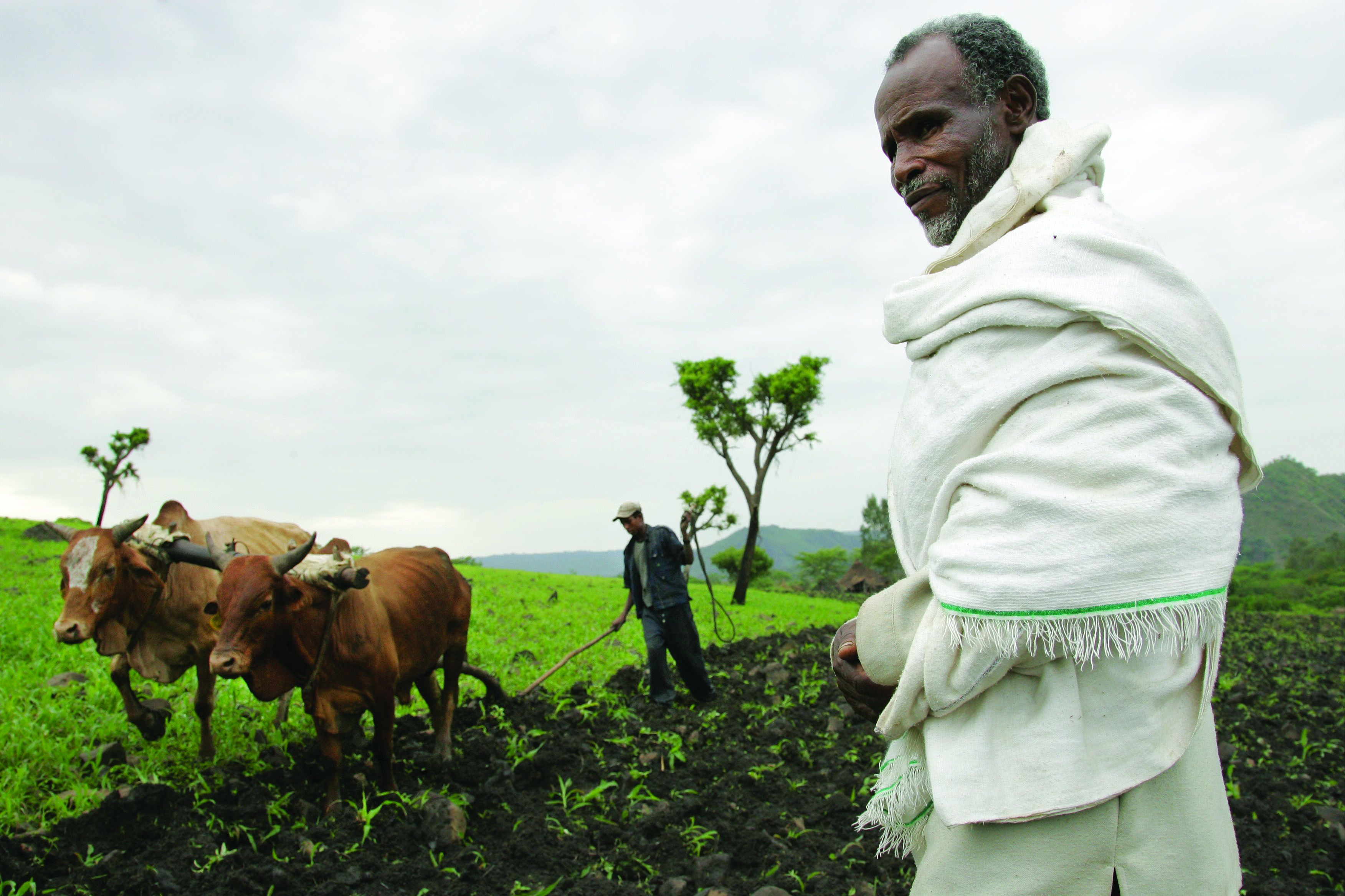 In Ethiopia's Ghibe valley, ILRI (International Livestock Research Institute)-led Tsetse Fly control methods have allowed cattle to flourish in an area previously almost uninhabitable for them. This has encouragd more farming in the area, relieving to a degree population and soil erosion pressures in higher, Tsetse free, elevations. Such is the impact this has had on the livelihood of farmer Worku Mengiste that he is now able to employ two casual labourers to do work he previously did himself. Here he watches on as they plough his field. ILRI 2010 Calendar, caption Creating new options for cultivating lands. More oxen for ploughing means less labour for farmers.